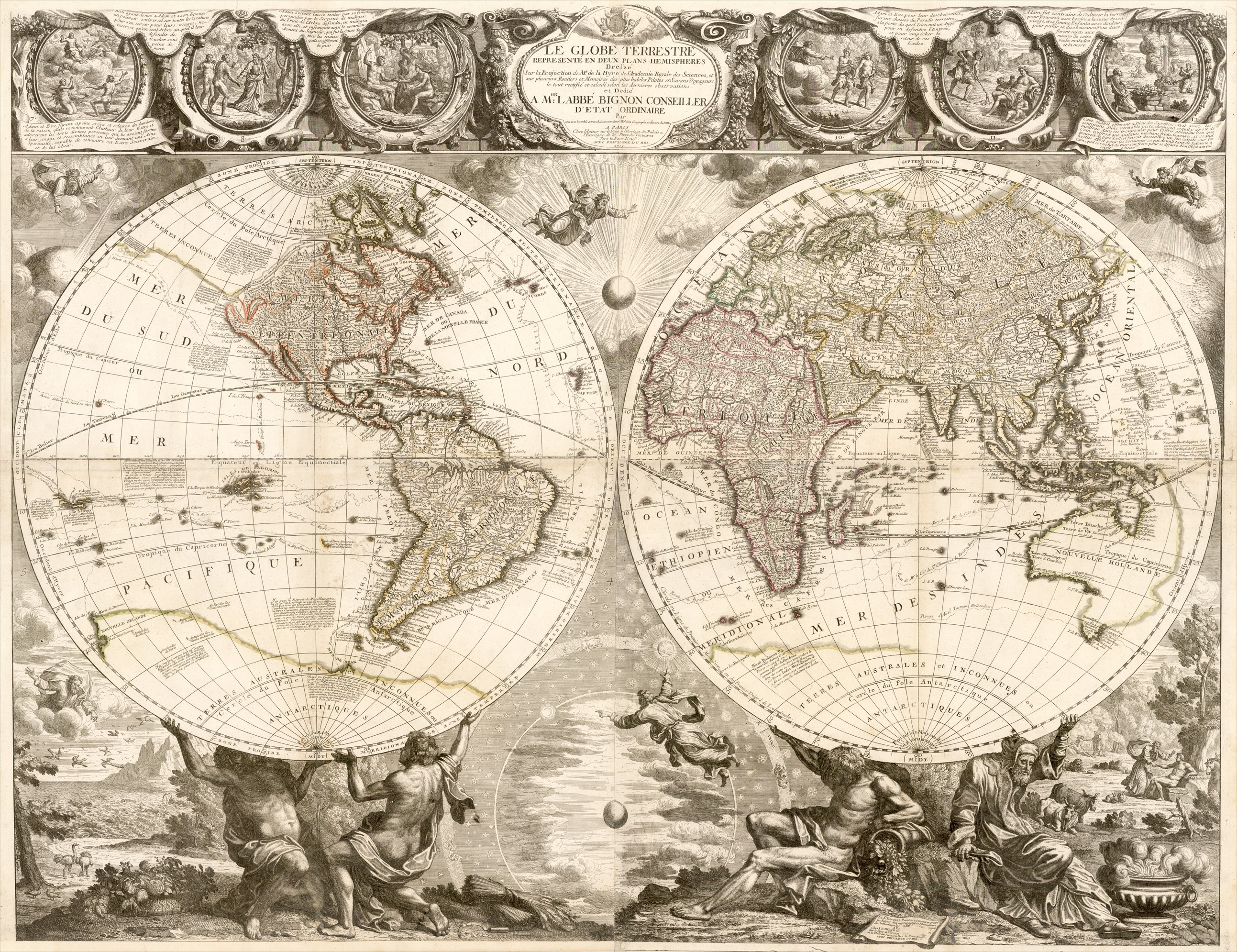 Le Globe Terreste, a map from 1708 by the French carographer Jean-Baptiste Nolin